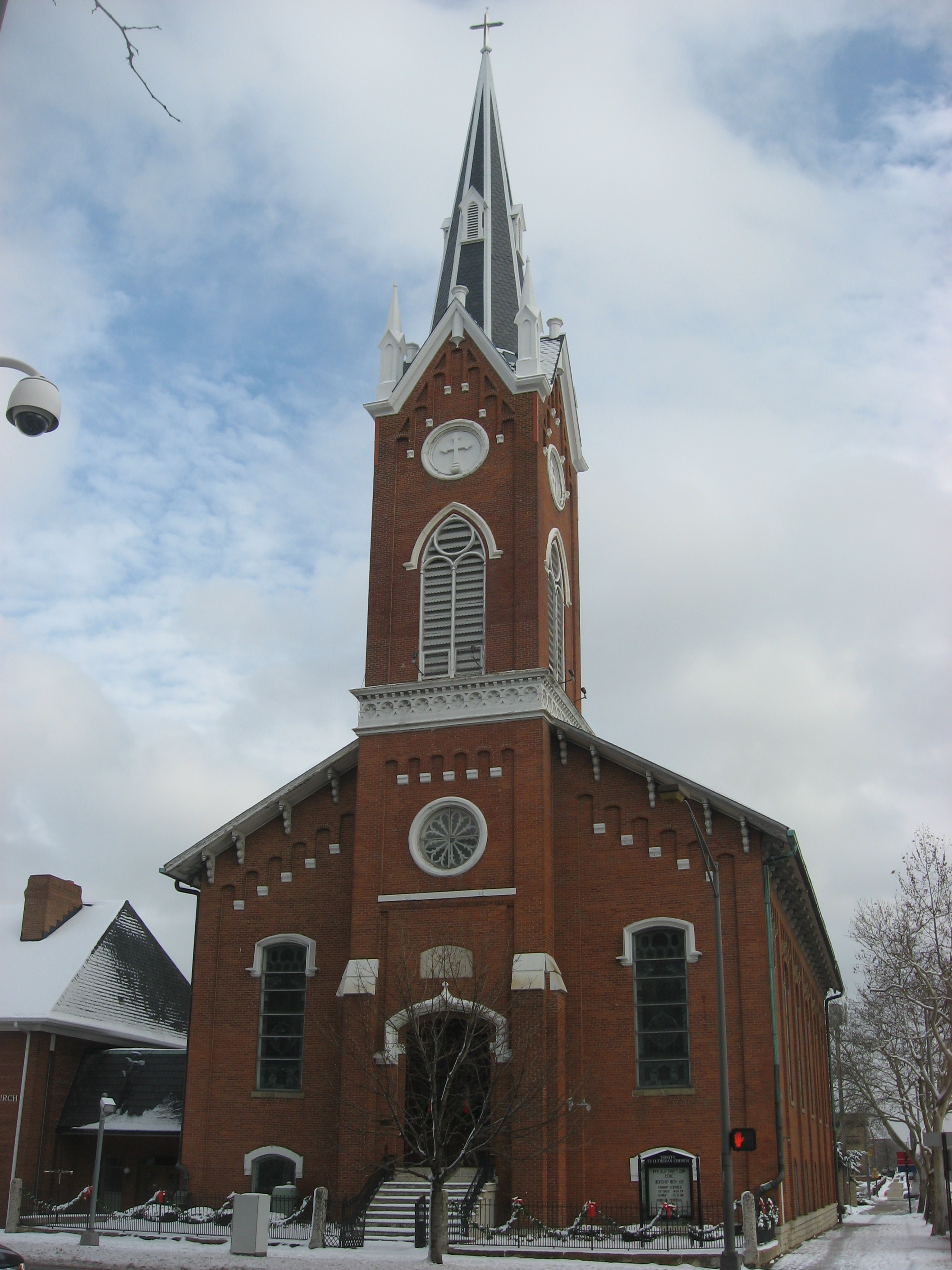 Front of Trinity German Evangelical Lutheran Church, located at 404 S. Third Street in downtown Columbus, Ohio, United States. Built in 1856, it is listed on the National Register of Historic Places.